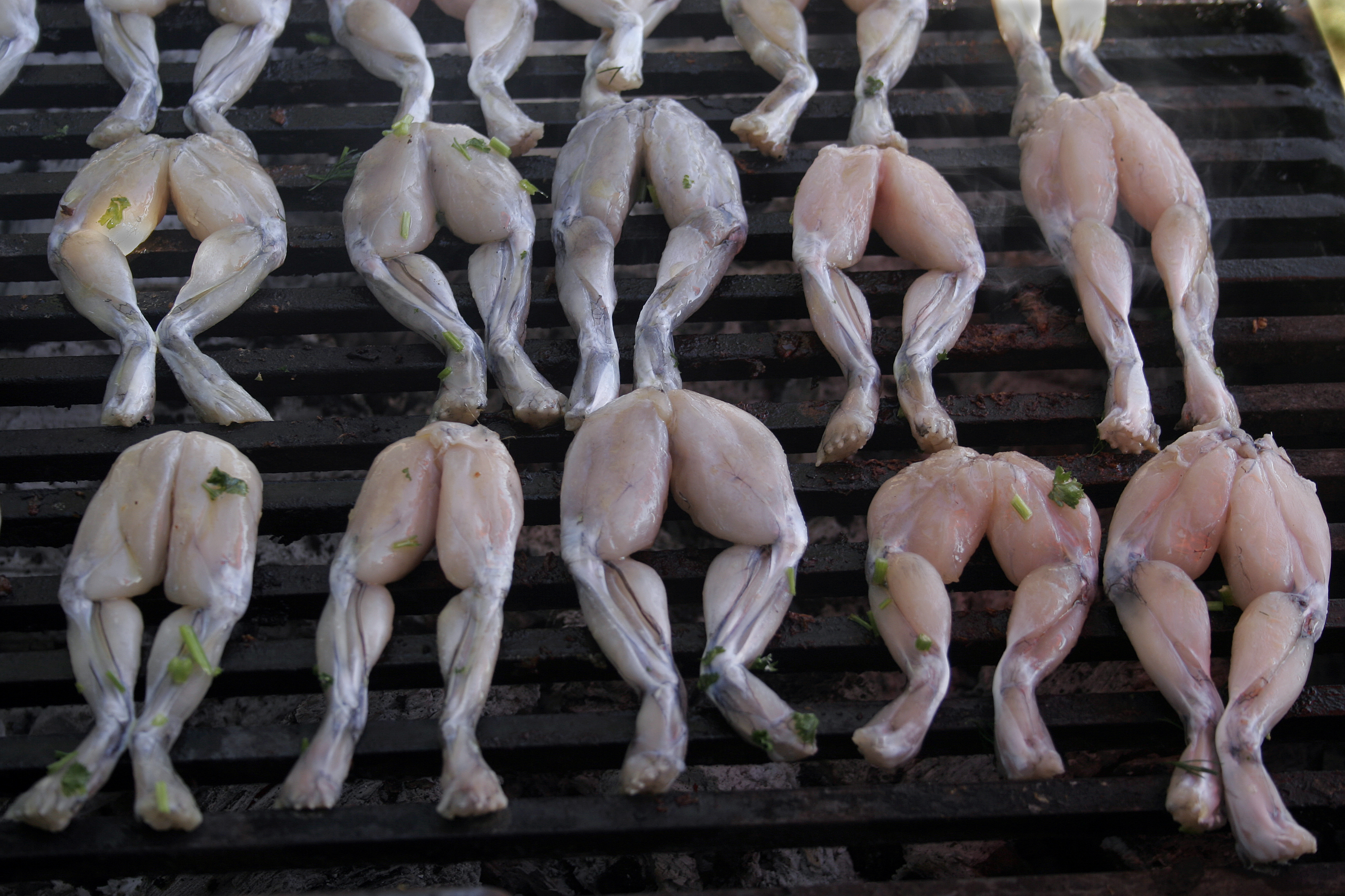 BBQ Frog legs